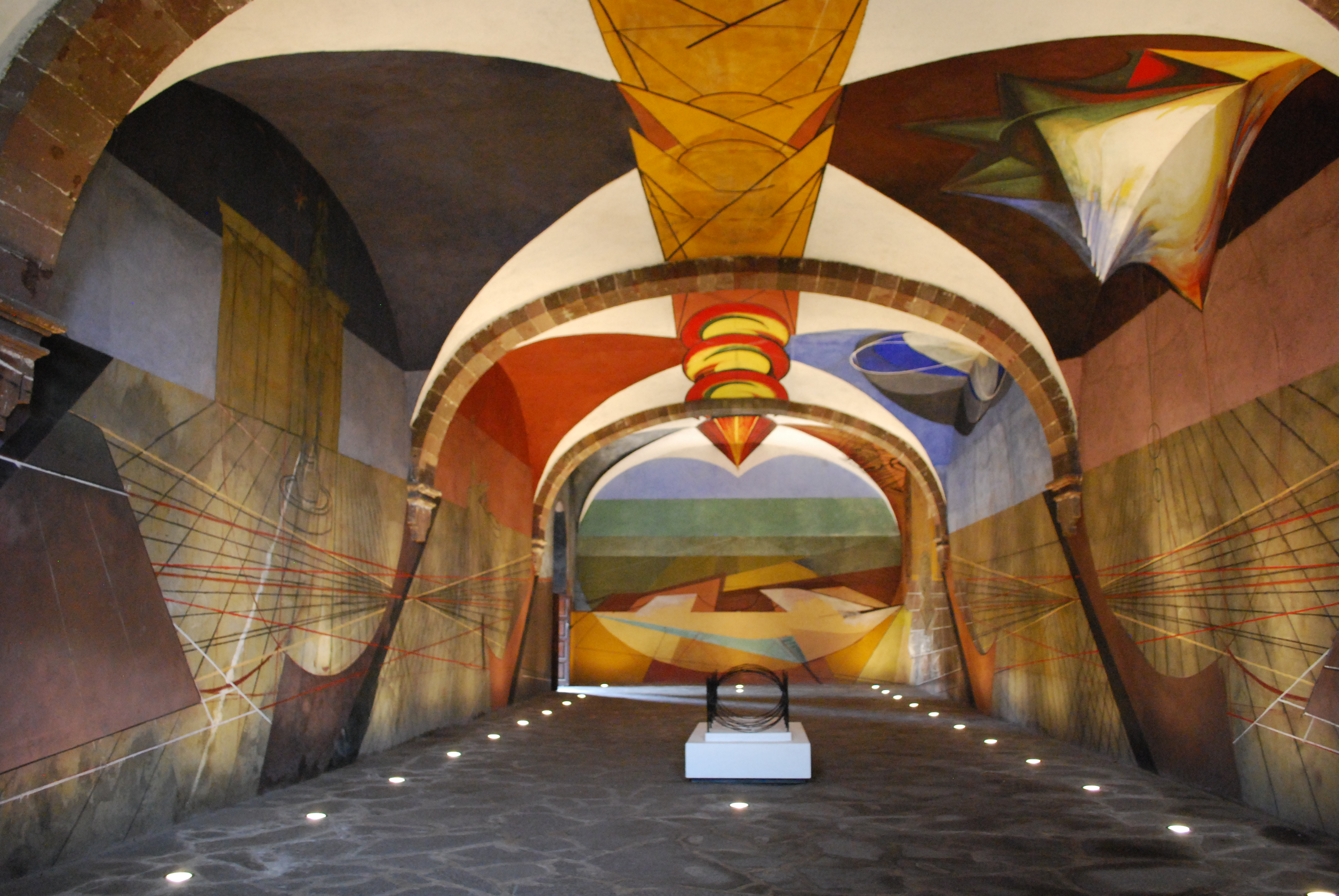 View of the Vida y Obra de General Ignacio Allende by Siqueiros at the Centro Cultural Ignacio Ramirez in San Miguel Allende, Guanajuato, Mexico